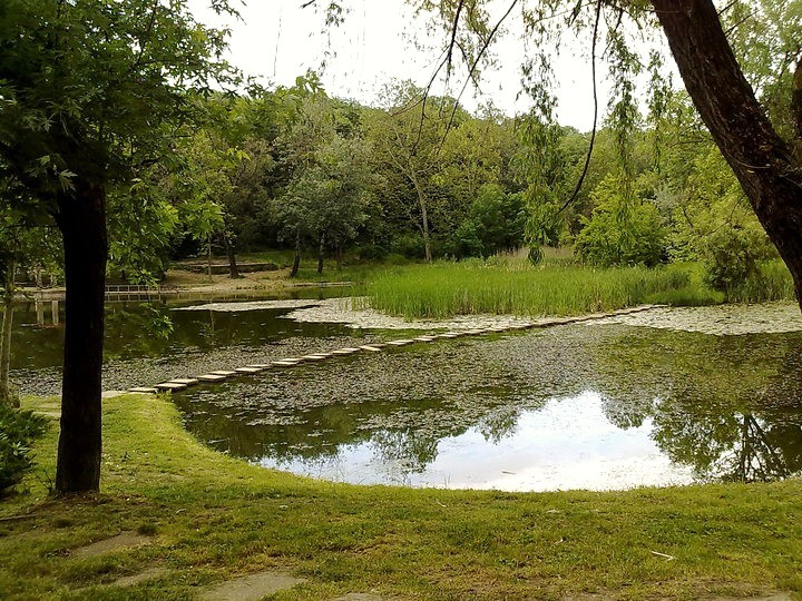 Lipnik park, Bulgaria